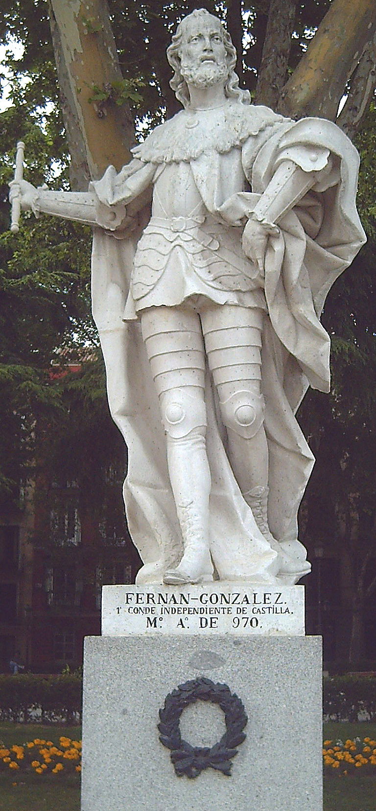 Statue of count Ferdinand II of Castile († 970) at the Plaza de Oriente (square) in Madrid (Spain). Sculpted in white stone by Juan de Villanueva Barbales (1681–1765) between 1750 and 1753.